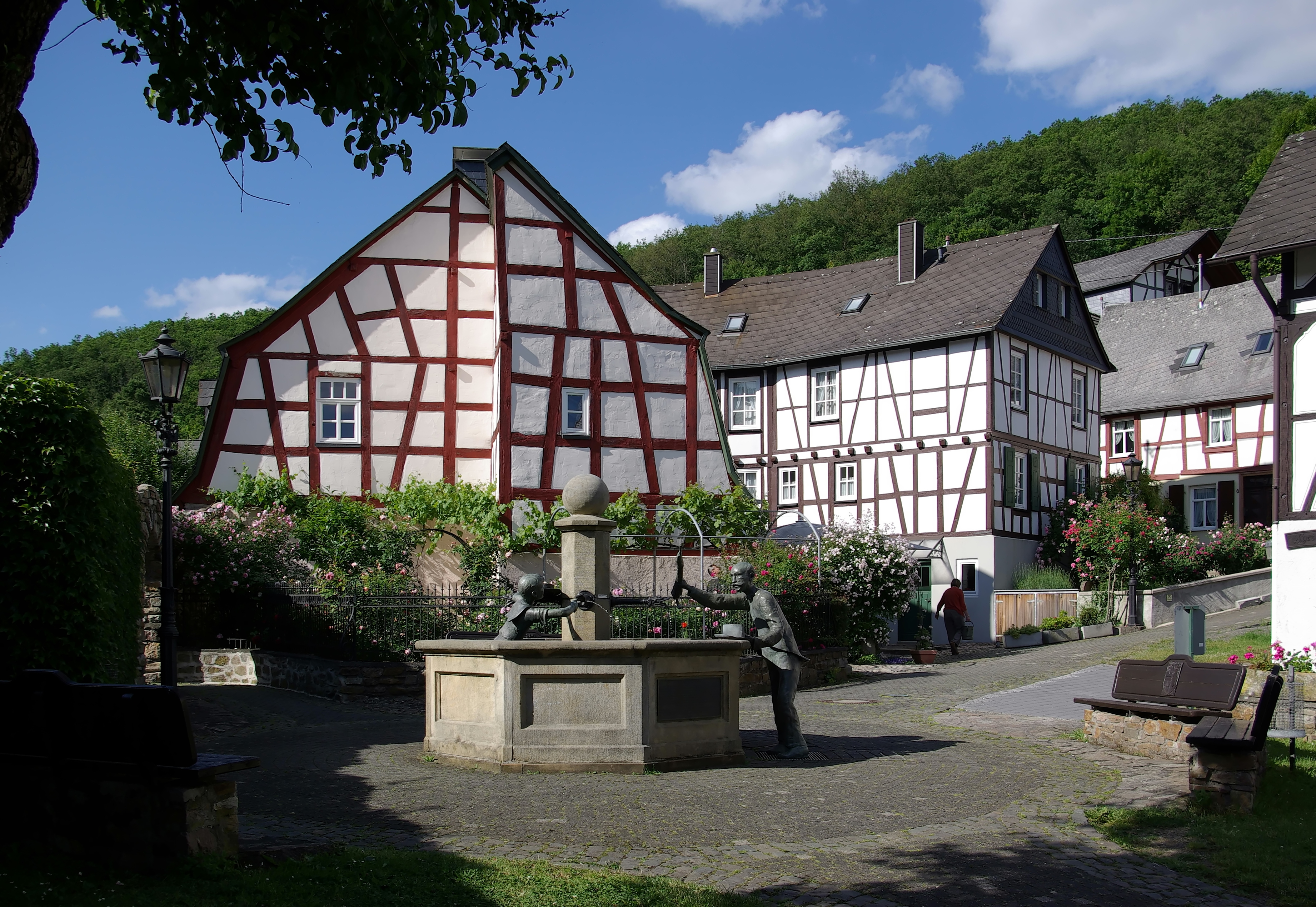 Germany, Herrstein, Fountain and Timber-frame Buildings; von links: Pfarrgasse 5, Pfarrgasse 7